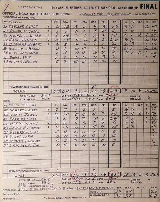 The official scorer's report for a basketball game between the University of Houston and University of North Carolina men's basketball teams during the 1982 NCAA Tournament. Rob Williams shot a tournament worst 0-8 from the floor while being defended by Jimmy Black.